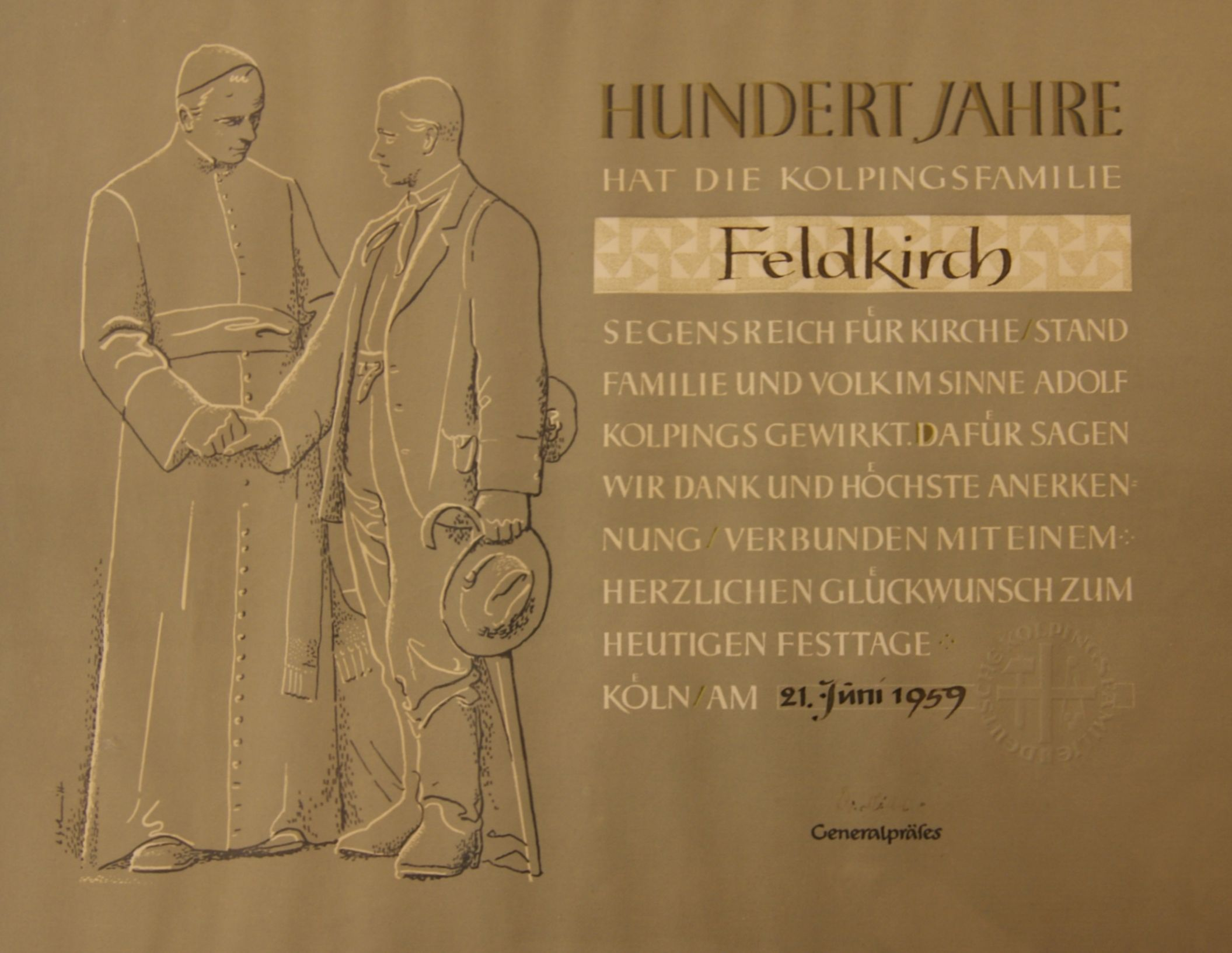 Honorary certificate on the occasion of 100 years of membership in the Kolping family for the Kolping family Feldkirch of the June 21, 1959 General Meeting of the Kolping family from Cologne (Germany).